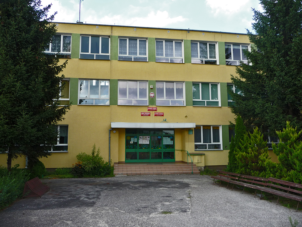 Primary School and Gymnasium (school) in Markuszów.